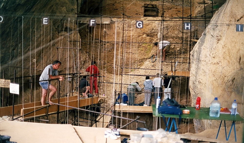 Arago-cave, near Tautavel (Perpignan-region), France